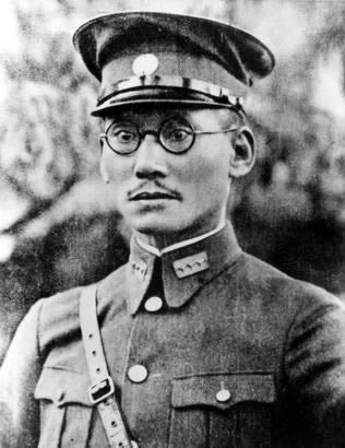 Long Yun, President of Yunnan Provincial Government